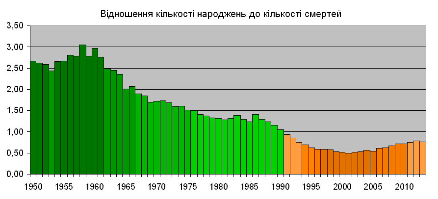 Birth to death proportion in Ukraine